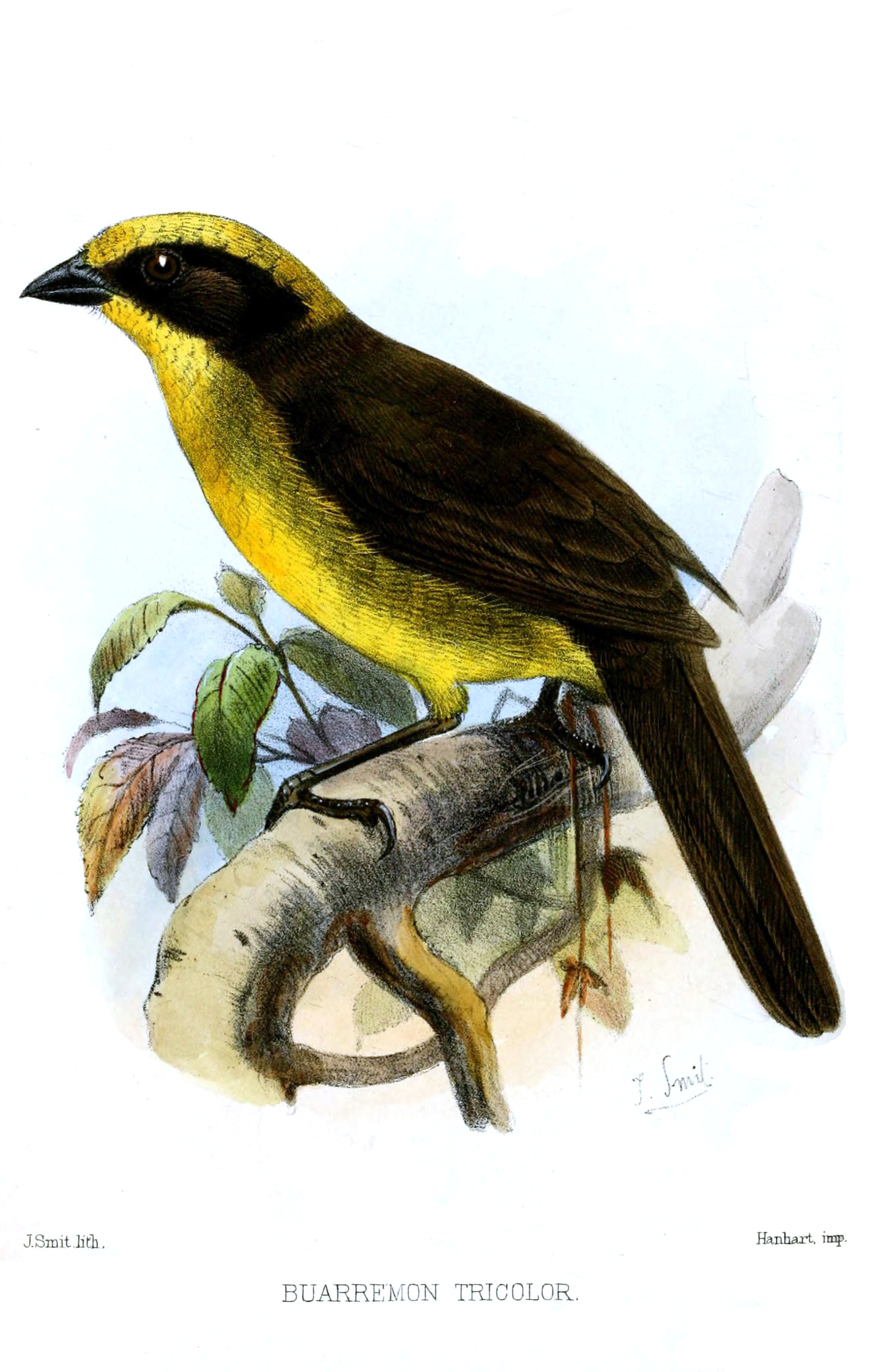 Buarremon tricolor = Atlapetes tricolor